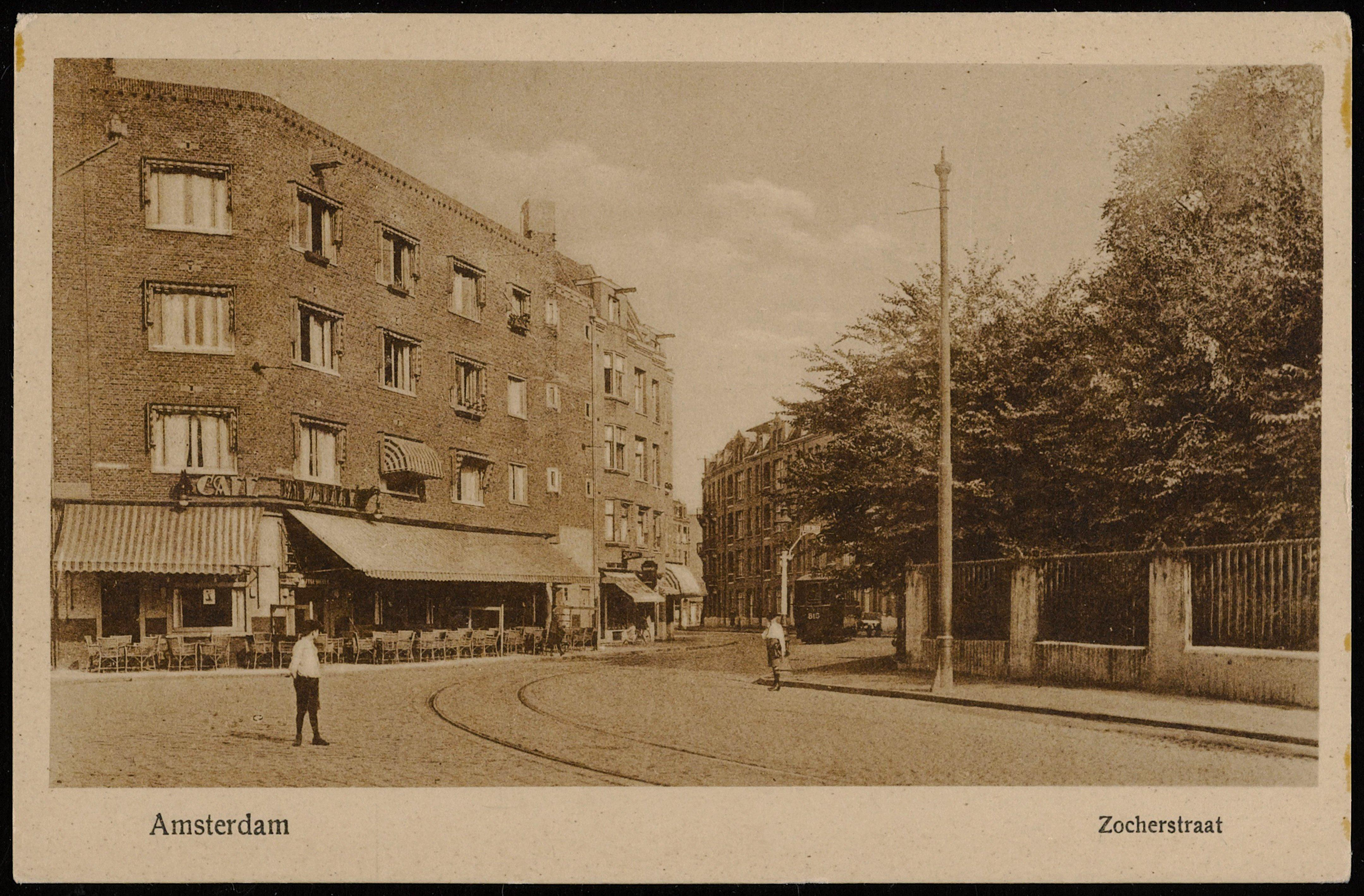 Zocherstraat